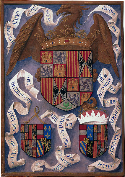 Isabella Breviary, f. 436v, Coat of arms of the Catholic Monarchs and those of their two children an respective spouses 1492-October 4th 1497